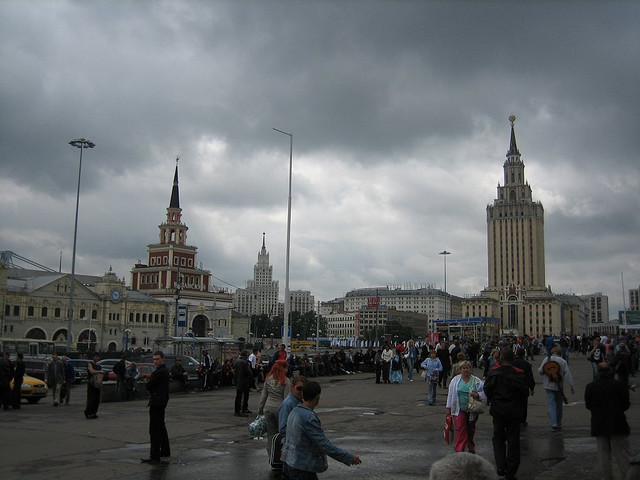 Komsomolskaya Square and Kazansky Rail Terminal, Moscow, Russia.